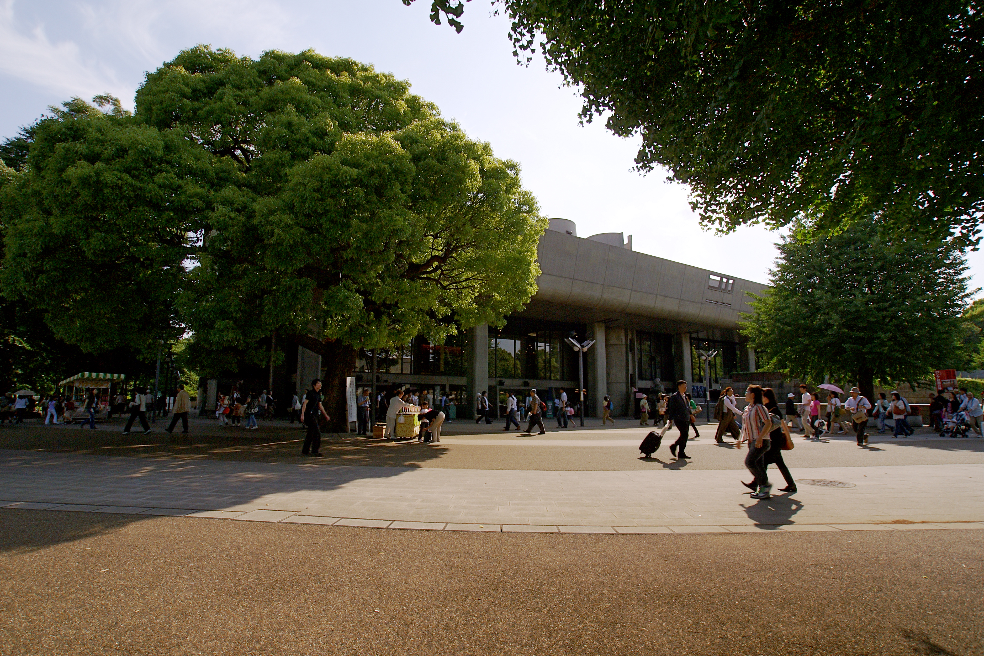 Tokyo Bunka Kaikan, Taito-ku, Tokyo, Japan